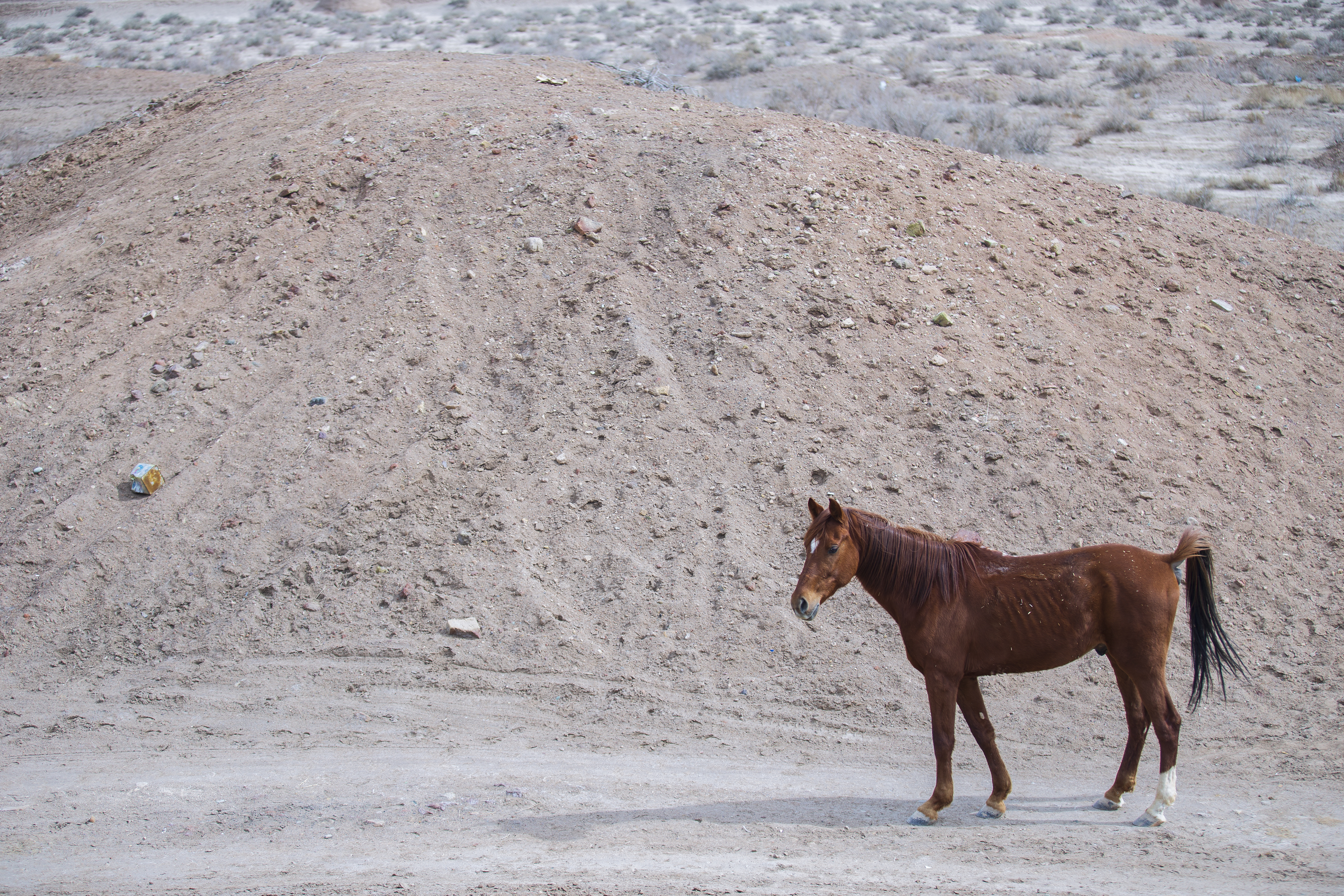 The horse is one of two extant subspecies of Equus ferus. It is an odd-toed ungulate mammal belonging to the taxonomic family Equidae.